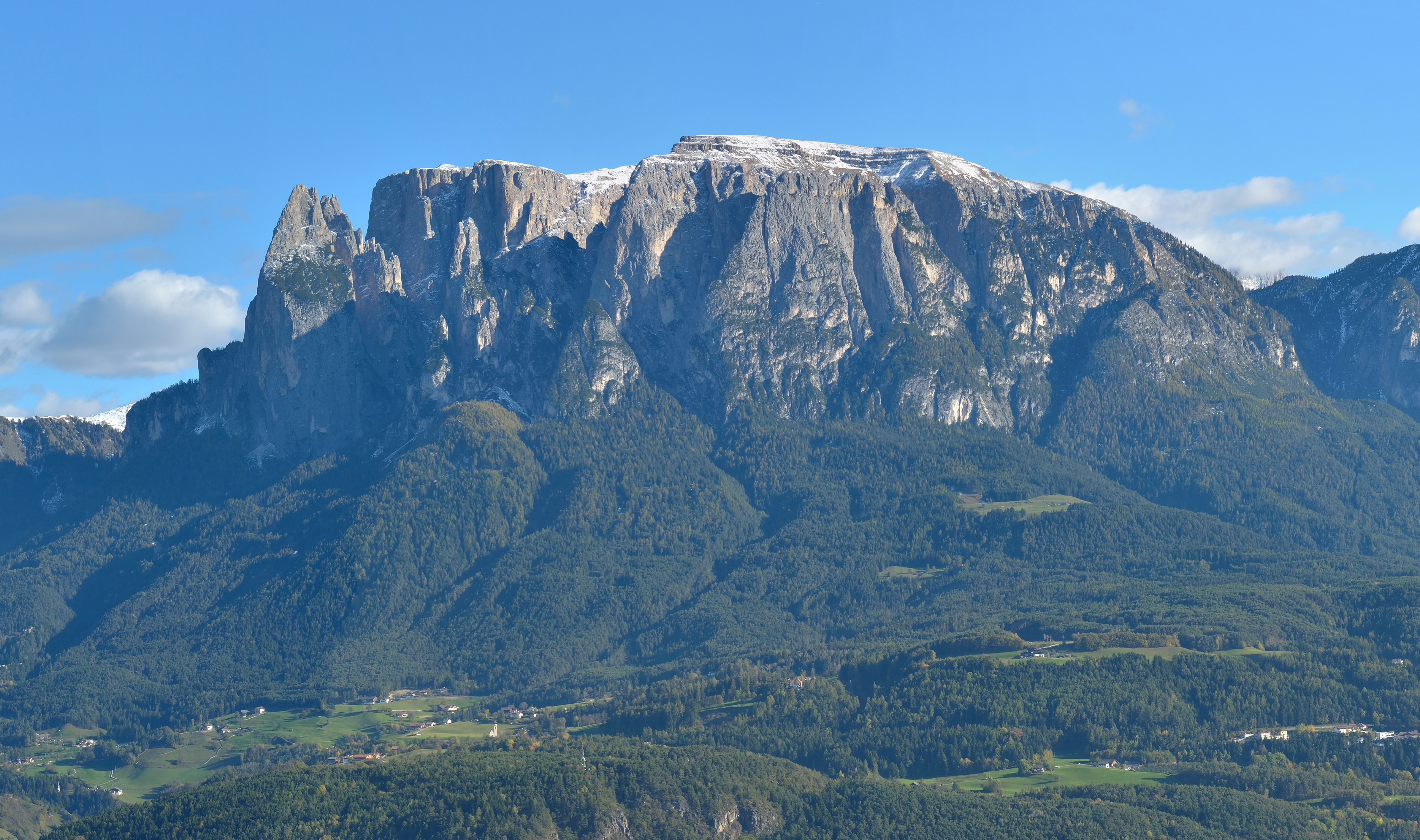 The Schlern as seen from the church St. Verena in Rotwand in Ritten.